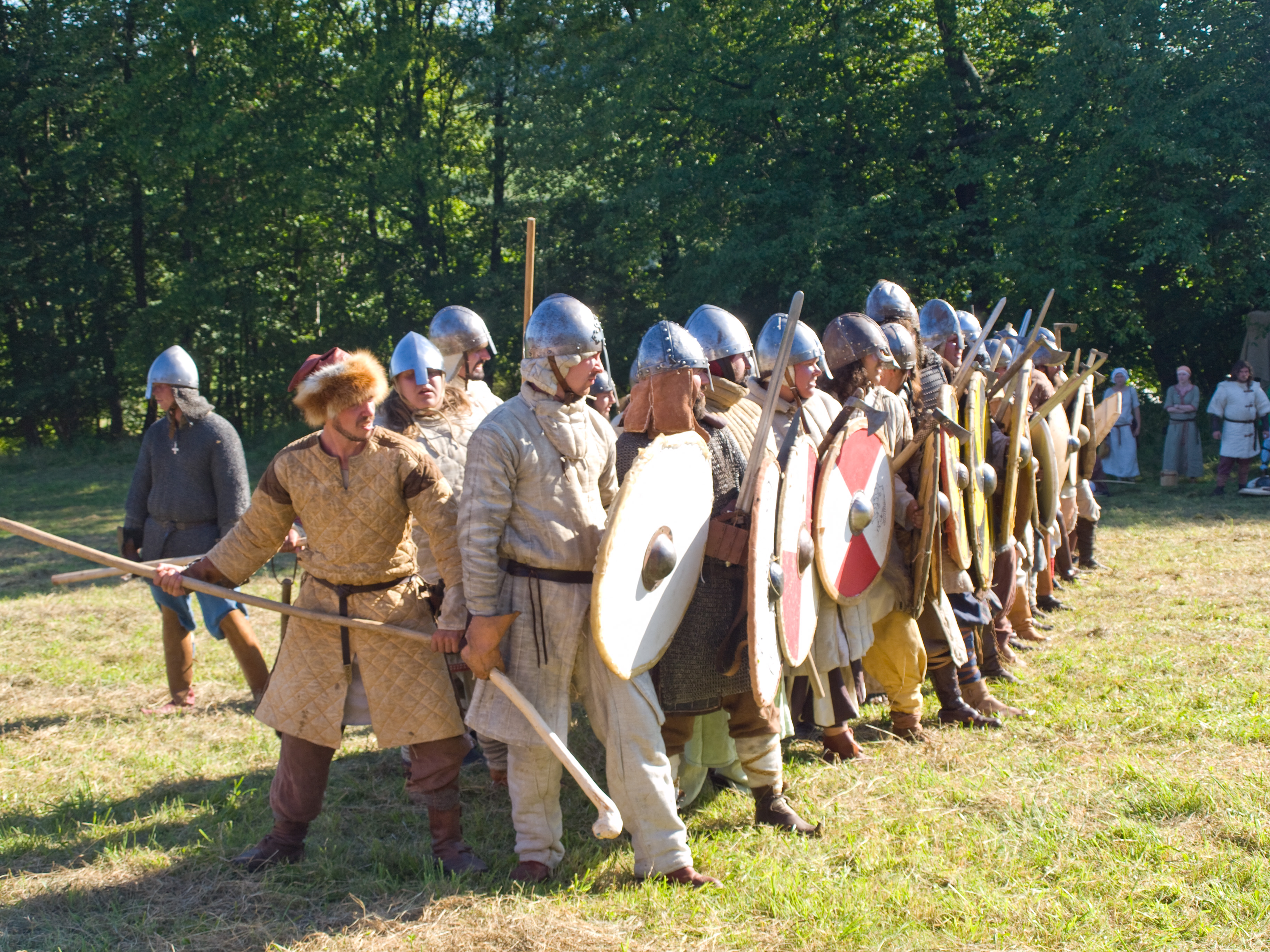 Reconstrucion of Early Middle Ages battle of Vikings and Slavs – Rogar, Neveklov, Central Bohemian Region, Czech Republic